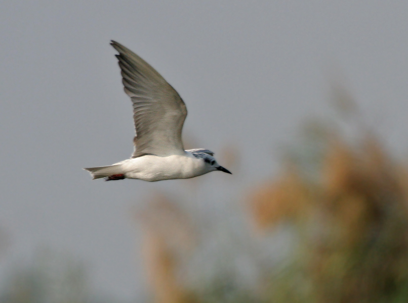 Whiskered Tern Chlidonias hybridus in Kolleru, Andhra Pradesh, India.